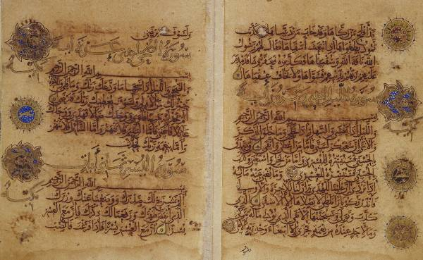 Chapters XCI-XCIV. The script he has used in this Qur'an is considered by many to be a naskh-rayhan variant, rather than pure naskh. This Qur'an is thought to be the earliest existing example of a Qur'an written in a cursive script. It is also important as an early example of a Qur'an copied in a vertical format on paper.